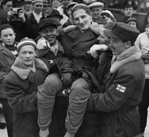 Finnish 4x10 km cross-country skiing team at the 1952 Winter Olympics: Paavo Lonkila, Tapio Mäkelä, Urpo Korhonen, Heikki Hasu with coach Veli Saarinen on top